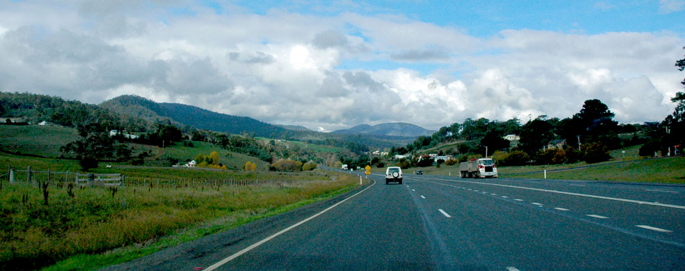 Midlands Highway, Tasmania, at Dysart heading southbound towards Bagdad through Constitution Hill pass. April 2007. Photo credit: KeresH